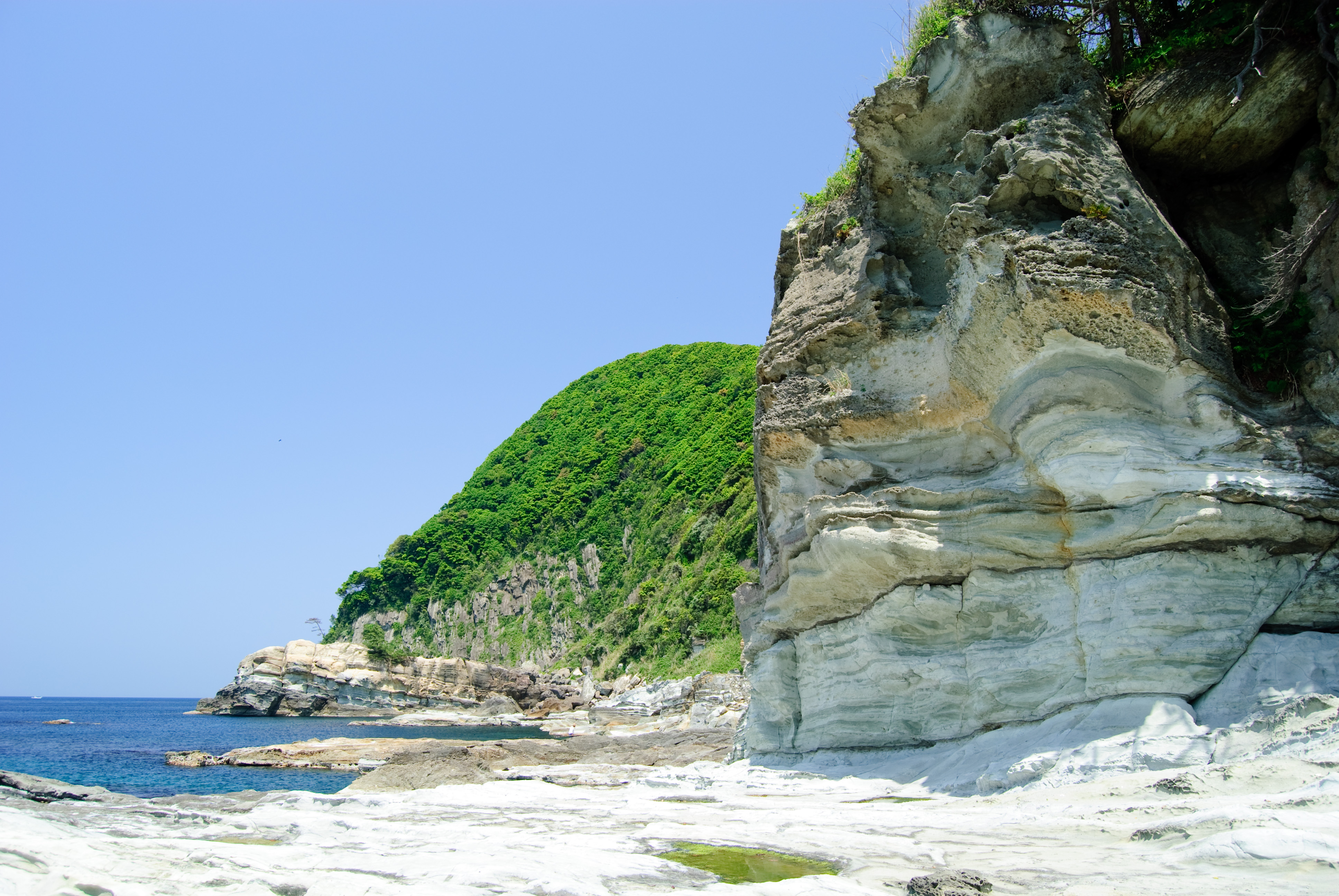 Takeno Kaigan Nekozaki Peninsula in Toyooka,Hyogo Prefecture, Japan.